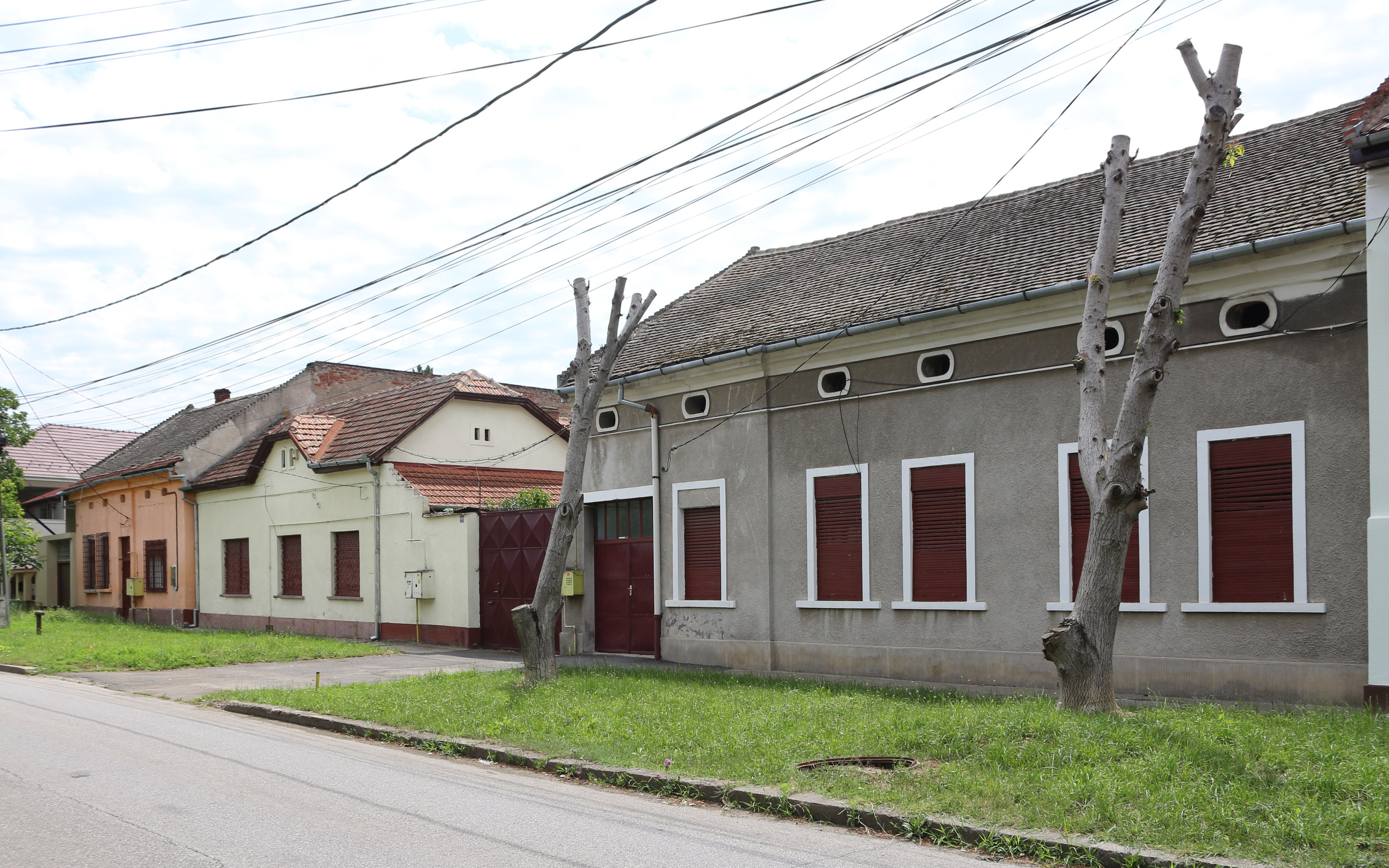 Memorandumului Street, Timișoara, Romania, built XIX-th century.